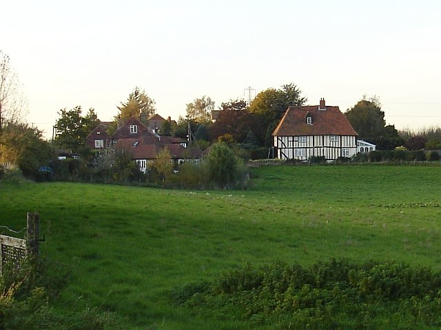 Teynham Street From Marsh Lane.